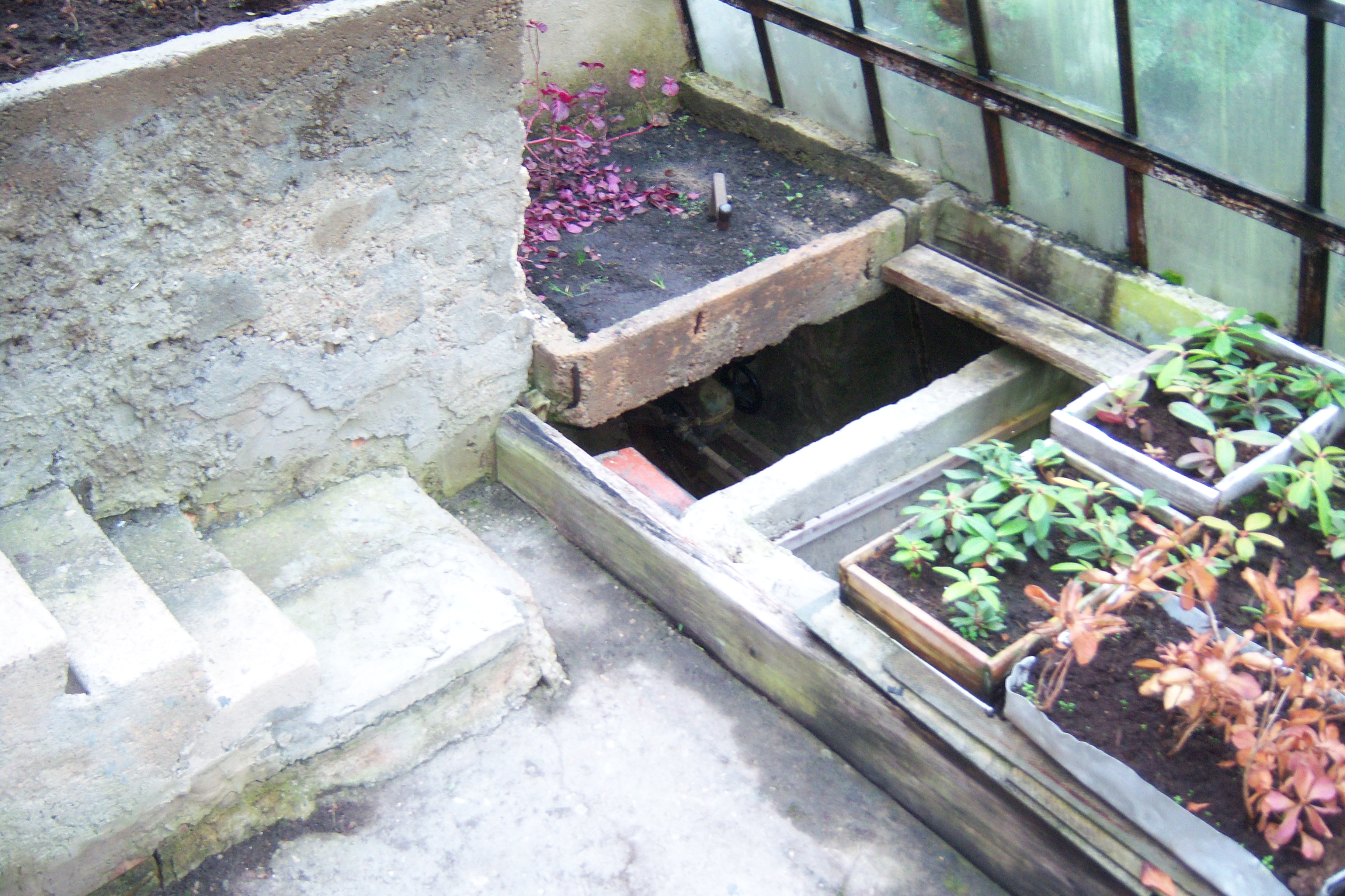 Museum of the underground printing house (Vytautas the Great War Museum affiliate), greenhouse basement entry. Kaunas district, Lithuania